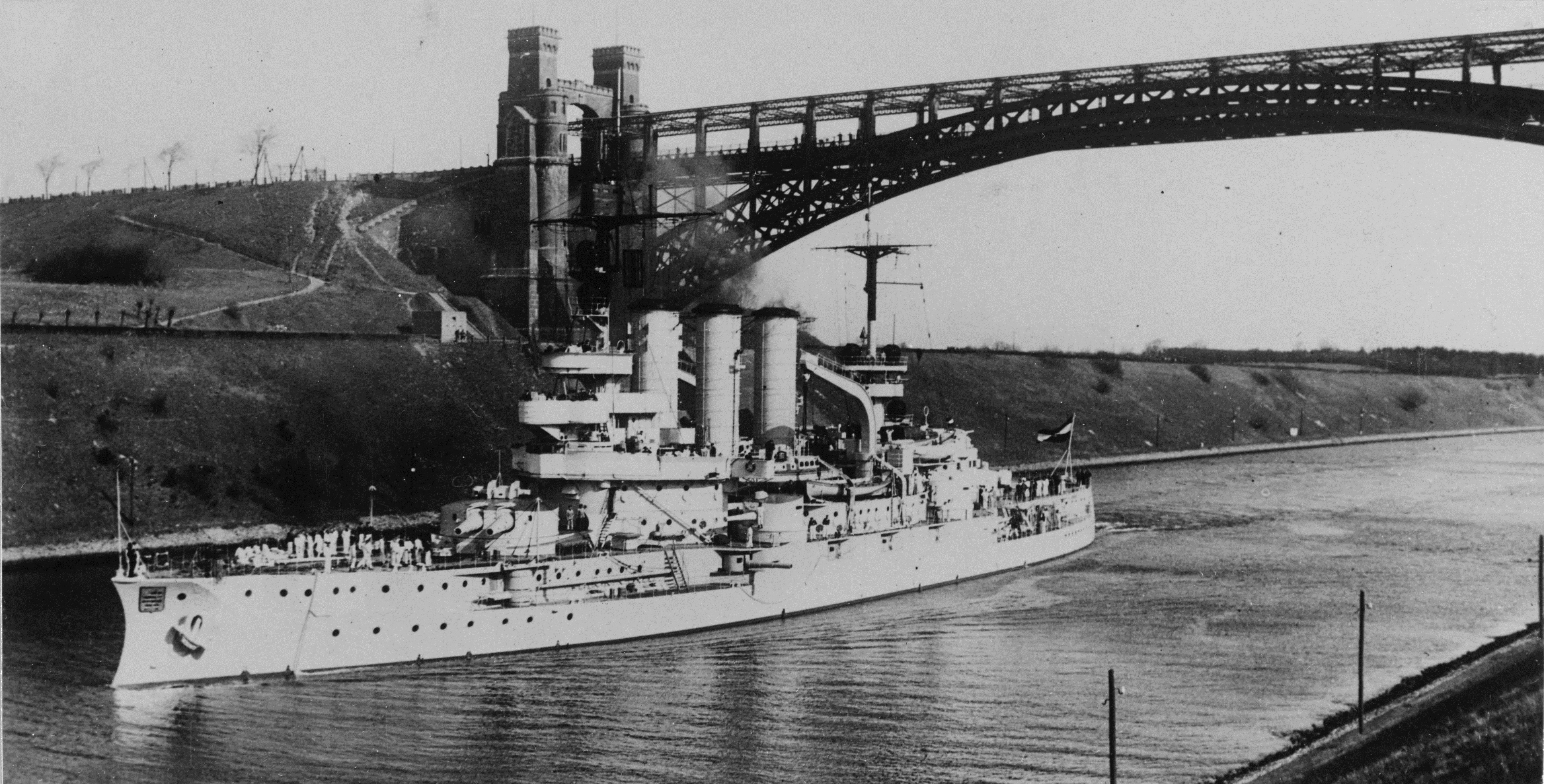 The German battleship Hessen passing under the Levensau Bridge while transiting the Kiel Canal, circa 1925-1934.